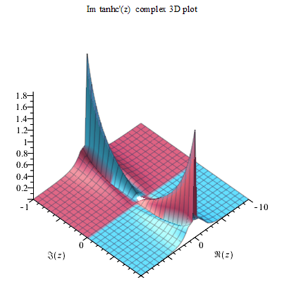 Tanhc'(z) Im complex 3D plot